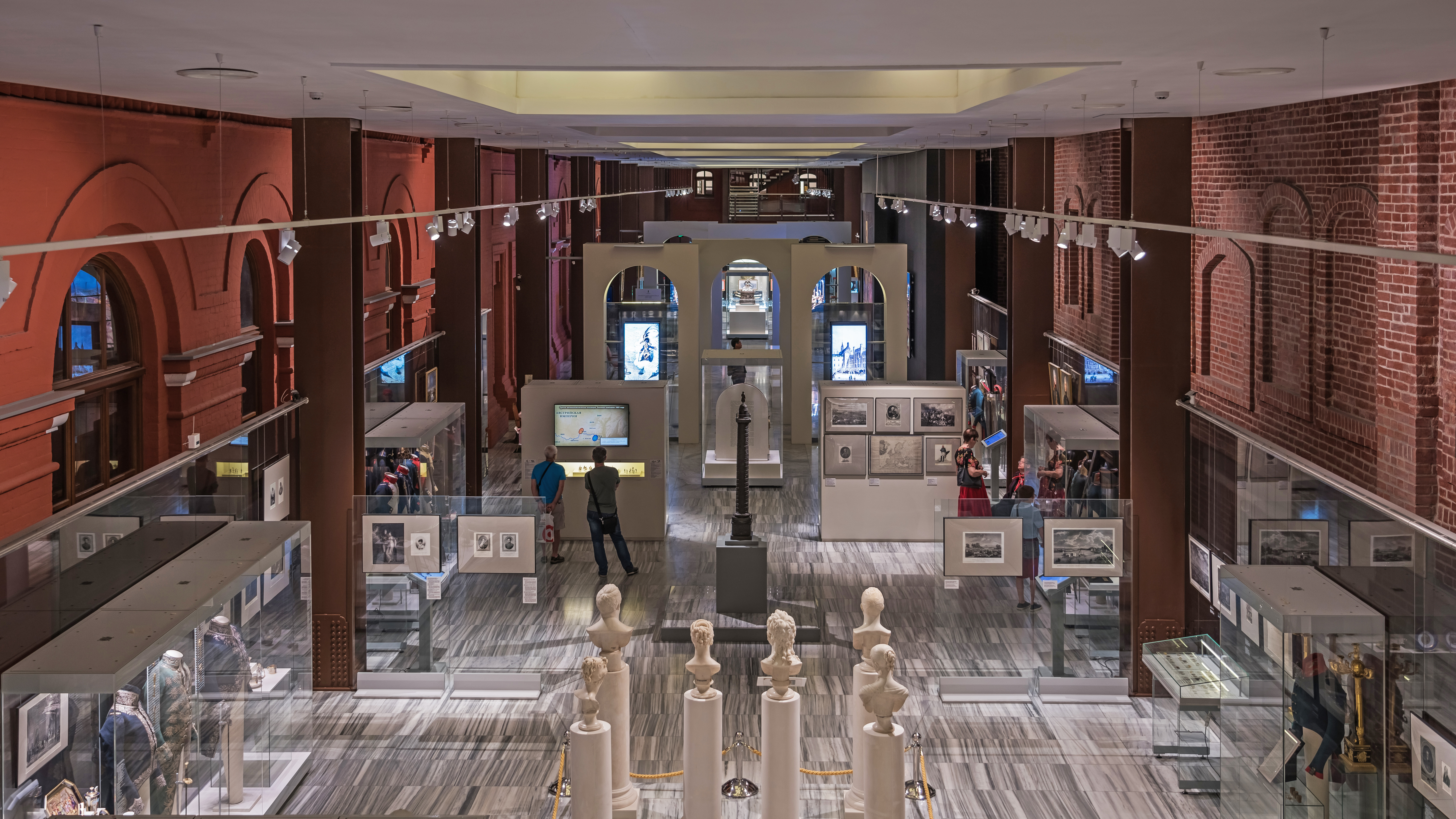 Museum of Patriotic War 1812 in Moscow, Russia.